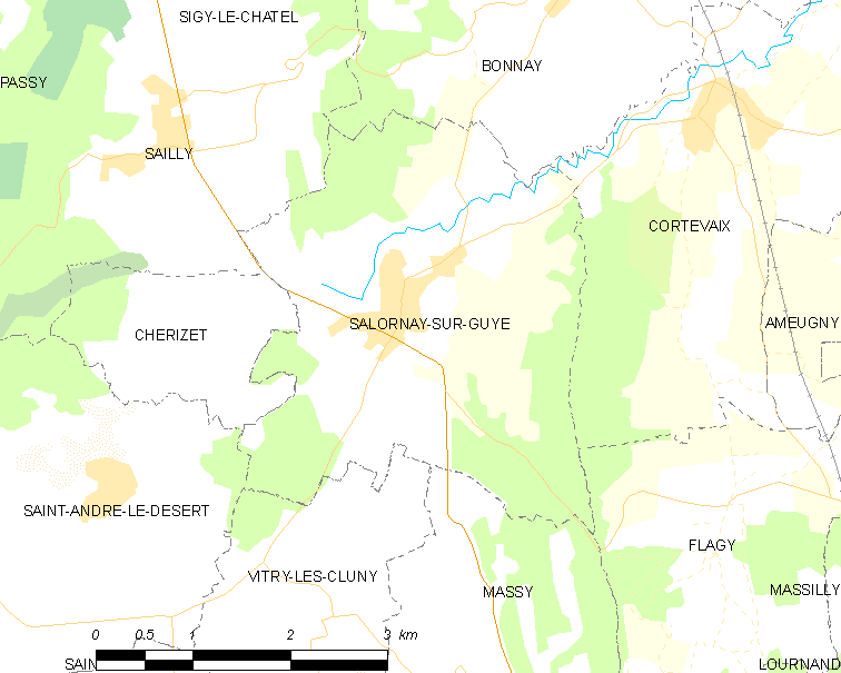 Map of French municipality